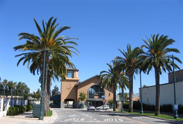 Palm tree avenue (landscape allée) and Caltrain station in San Mateo, California.